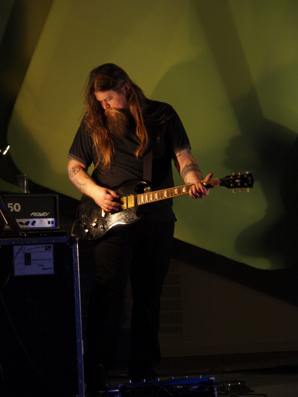 Ivar Bjørnson live at Stedelijk museum.